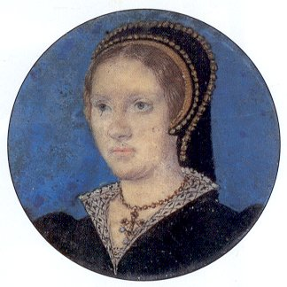 miniature portrait of Katharine Parr